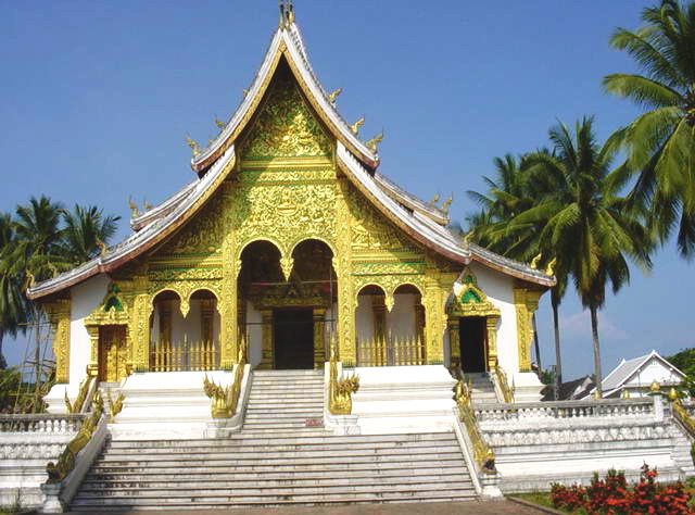 Royal palace museum of Luang Phrabang (Haw Kham) in Laos